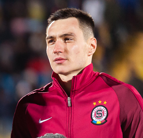 «Ростов» - «Спарта» (16.02.2017)